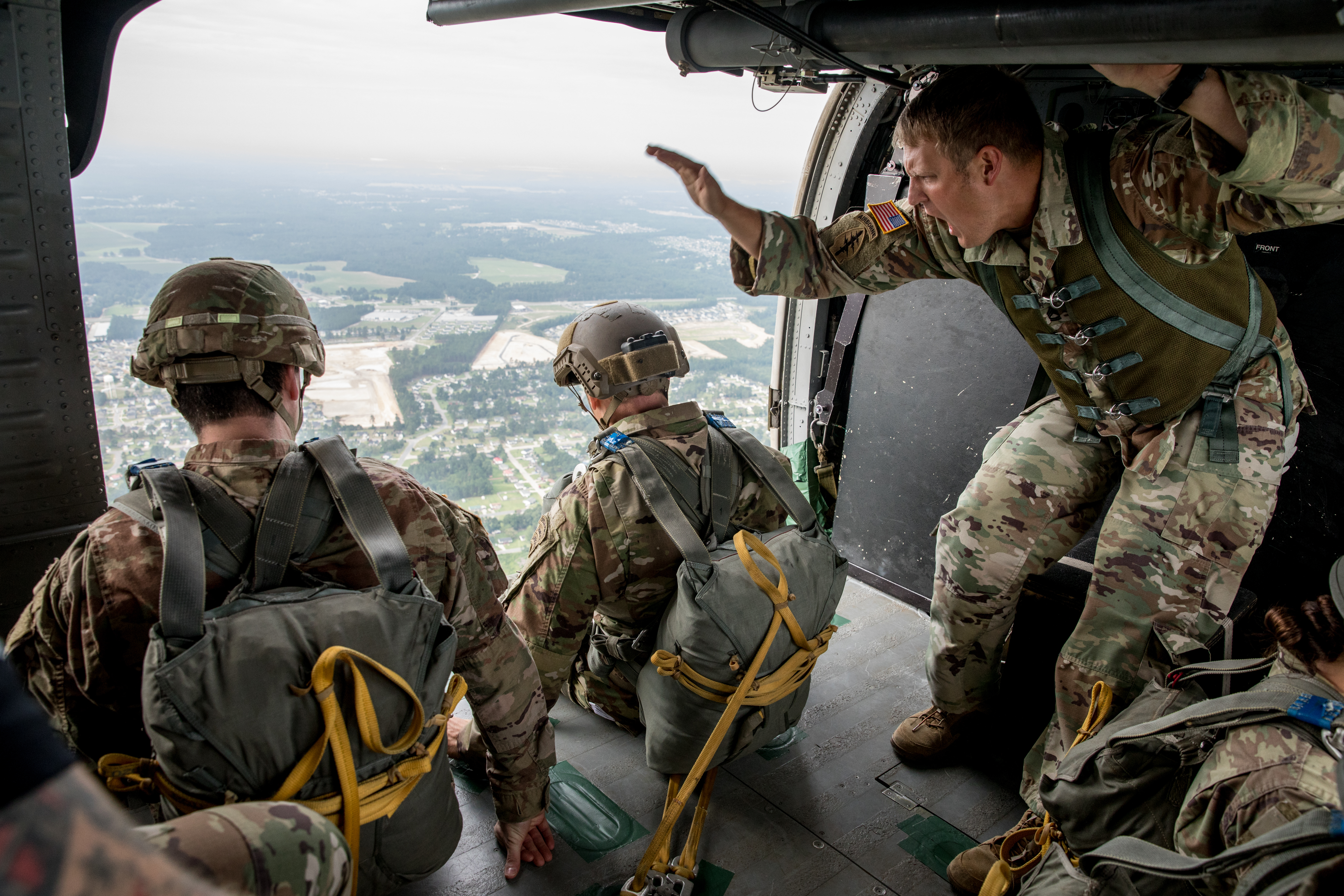 A Jump Master assigned to 3rd Special Forces Group (Airborne) gives the command of GO to a paratrooper during an airborne operation in honor of the 101st birthday of the Warrant Officer Corps July 19, 2019 at Fort Bragg, N.C. To honor the 101st birthday of the Warrant Officer Corps, 3rd SFG (A) had a luncheon that proceeded a cake cutting conducted by the oldest and the youngest Warrant Officer who attended the event and conducted an airborne operation. (U.S. Army photo by Sgt. Steven Lewis)